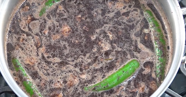 Simmer Dinuguan until thick.